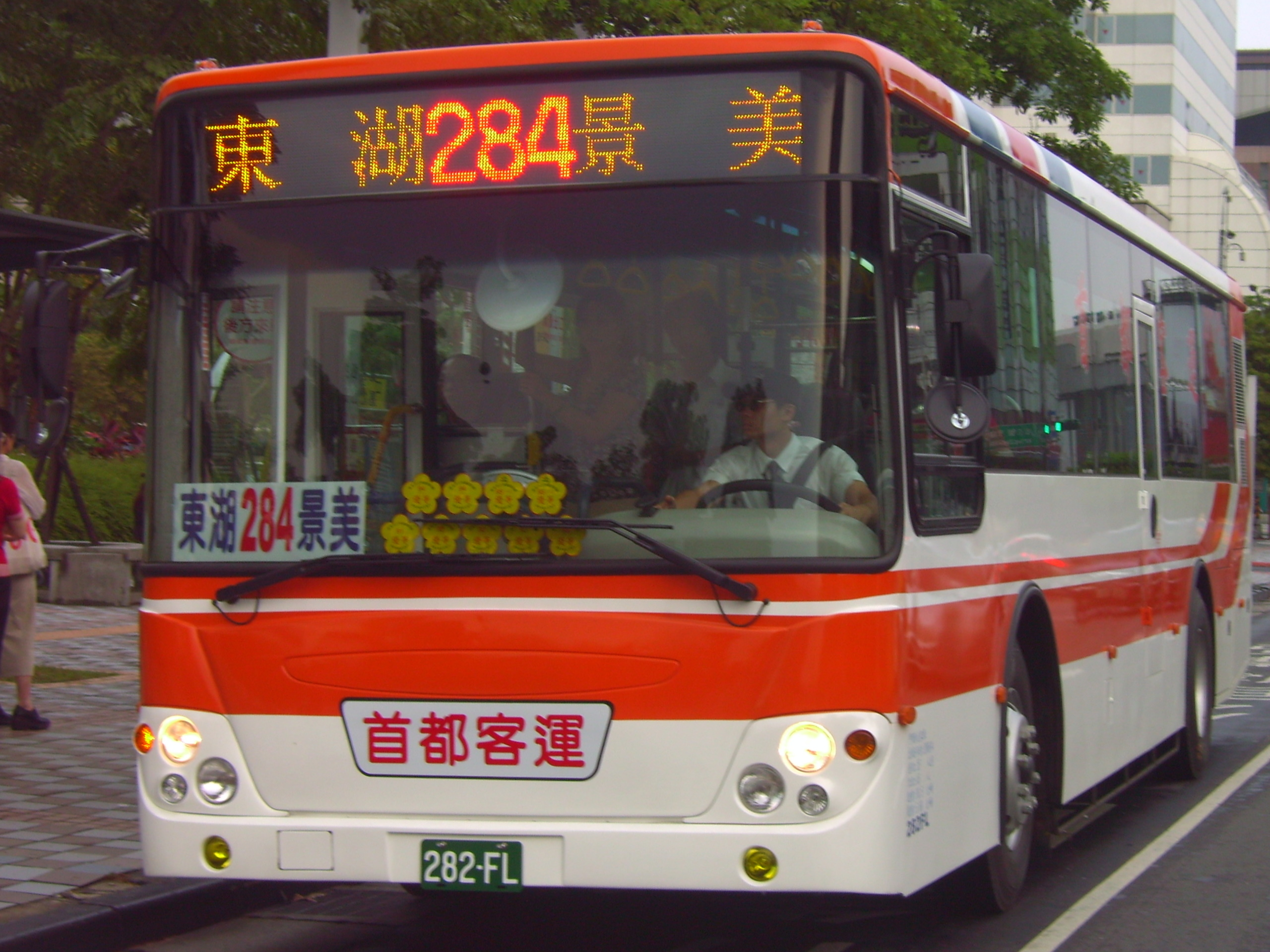 Capital Bus Co., Ltd. purchased Daewoo buses at July 2007, the front side of BC211MA bus is the same as BS110ML.